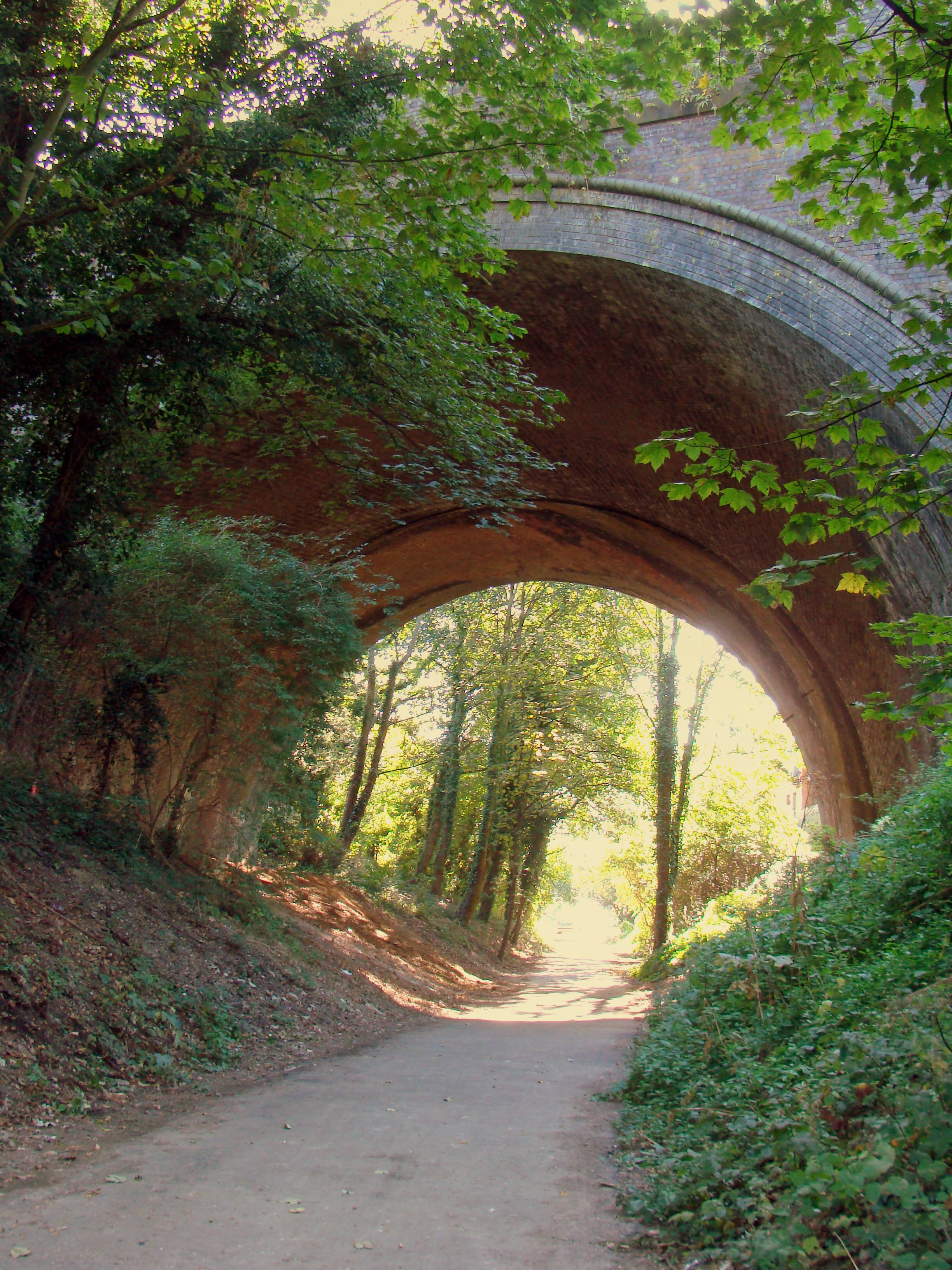 A bridge (opened in 1868) carrying the Midland Railway over Great Northern Line (closed in 1964). National Cycle Network road No 61.